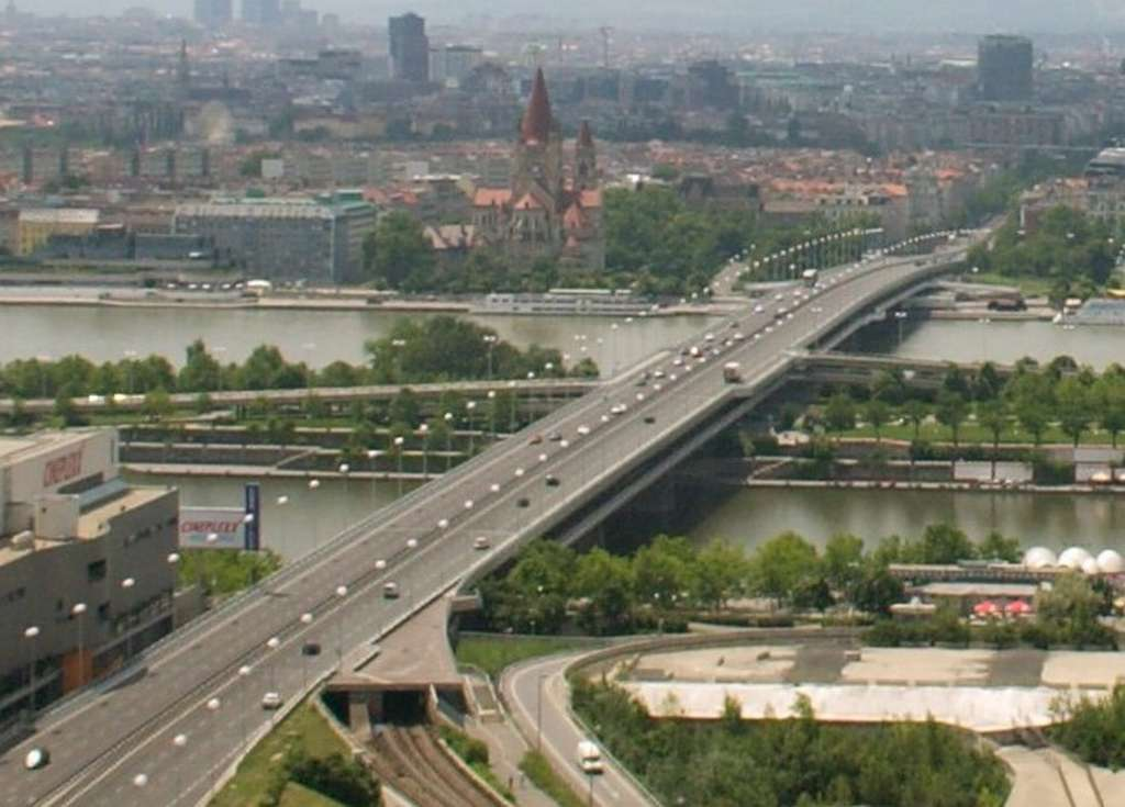 Reichsbrücke in Vienna, seen from left bank (north). Mind Donauinsel and Mexikoplatz (around the church in middle-background).